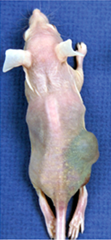 Nude mouse with a tumor, grown from implanted LNCaP prostate tumor cell lines.